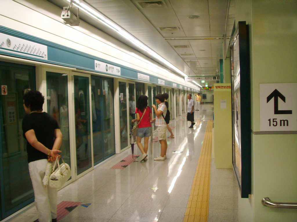 Gwangju Subway Line 1 Songjeong Park Station